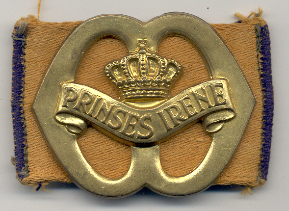 Baret Badge Prinses Irene 1st model 1947 with original underground pad